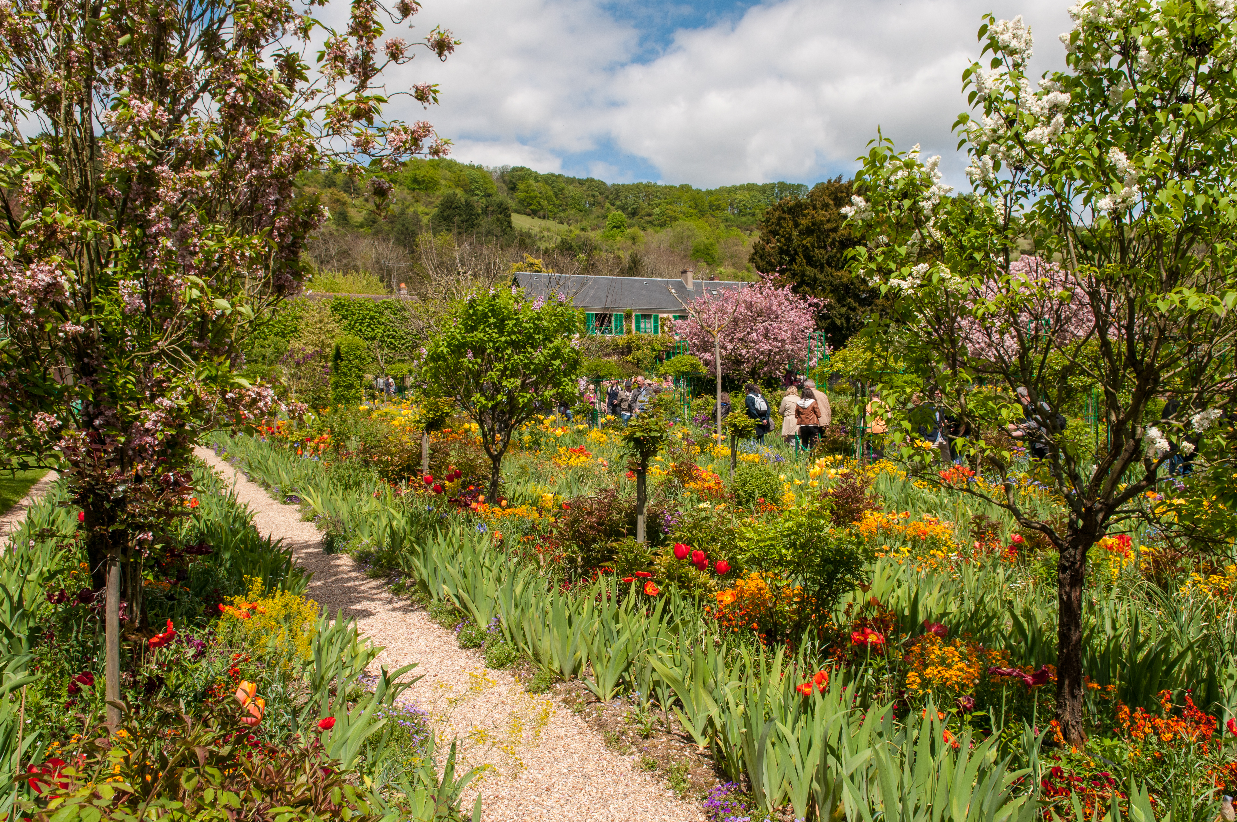 Claude Monet house and garden in Giverny